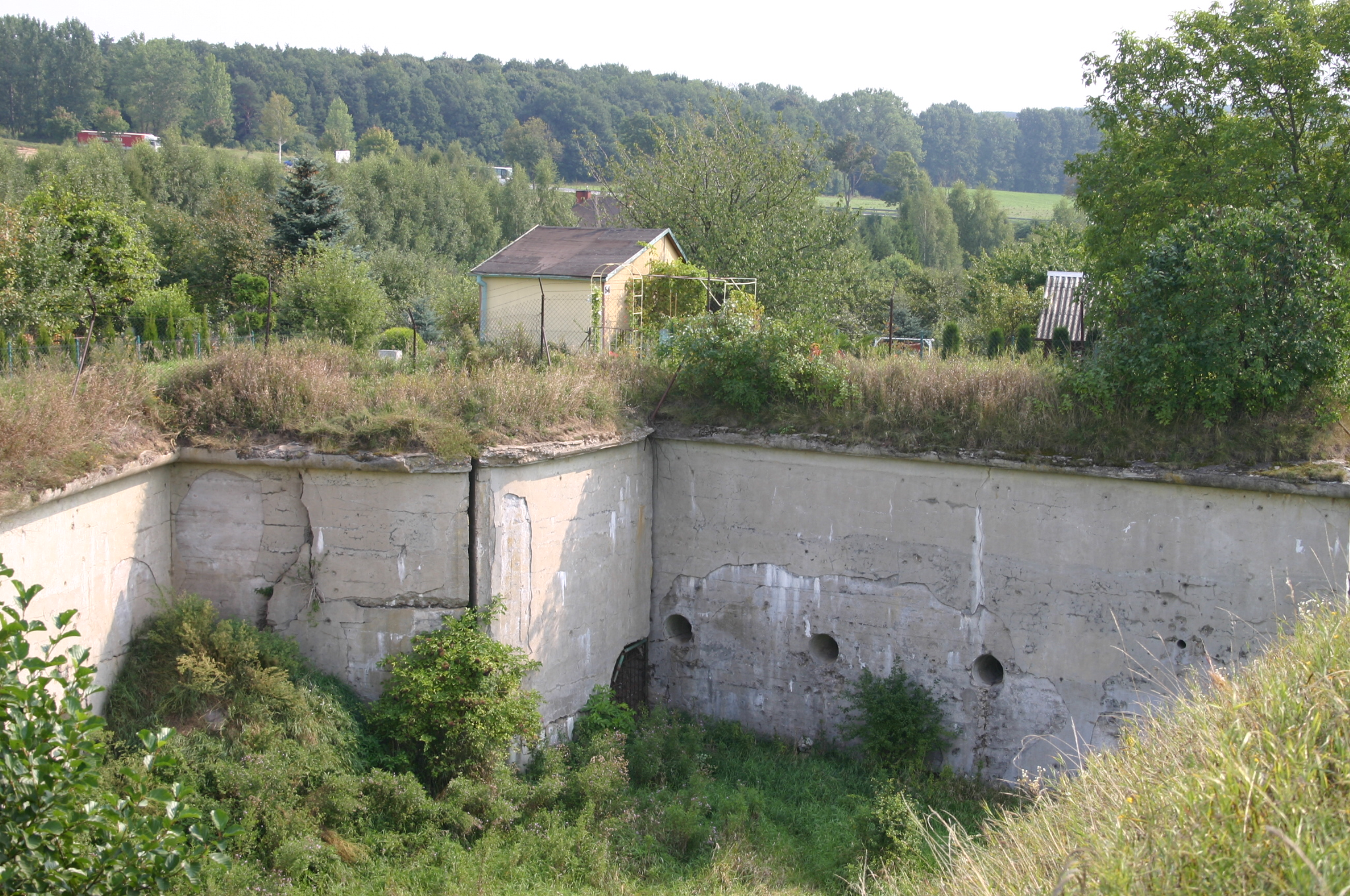 Fort III in Piątnica, part of Lomza Fortress (1887-1889, 1901-1909, 1939)